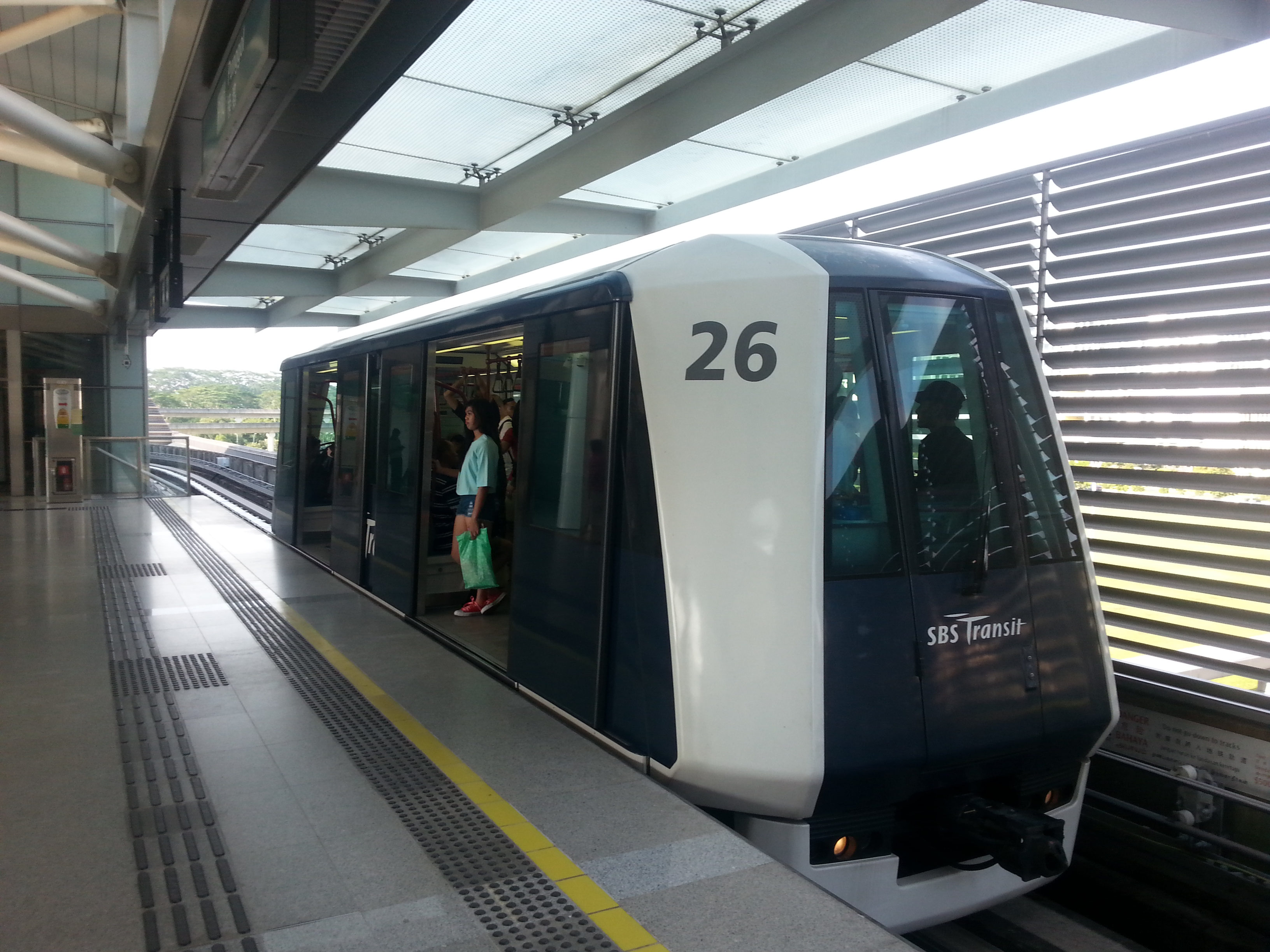 SBS Transit Mitsubishi Crystal C810A